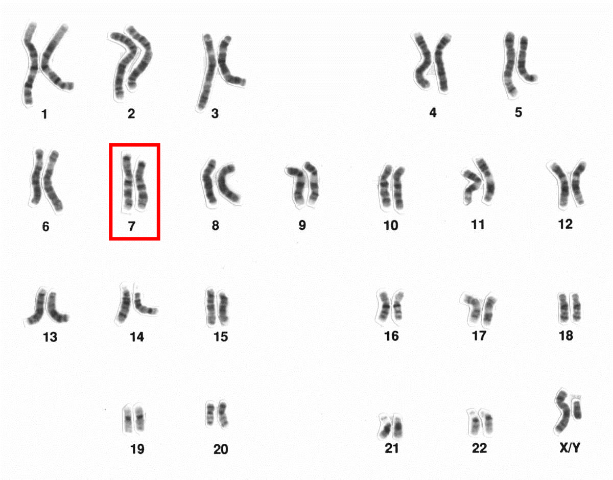 Human male Karyotype after G-banding. Chromosome 7 highlighted.